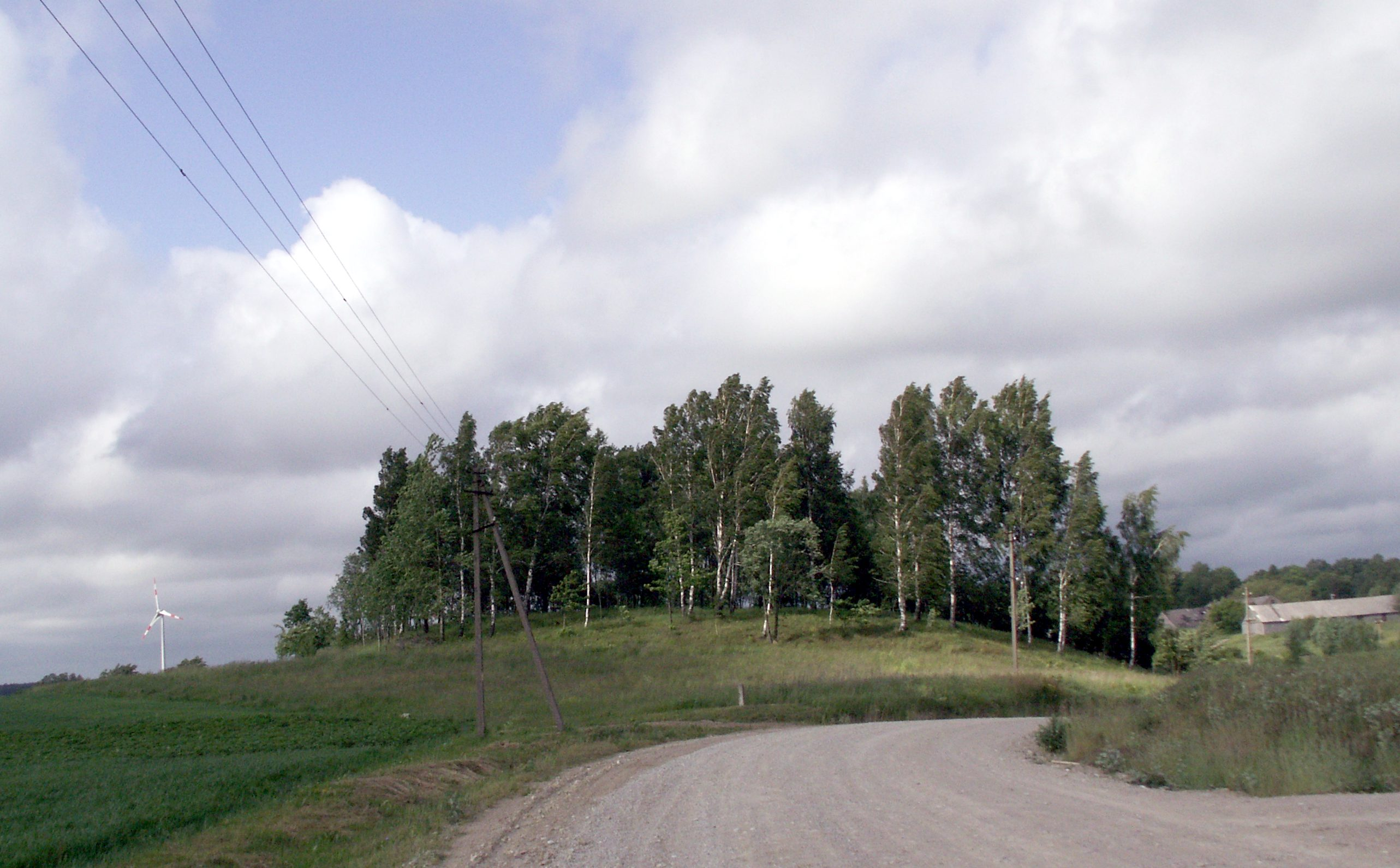 Hillfort Rūdaičiai, Kretinga district, Lithuania